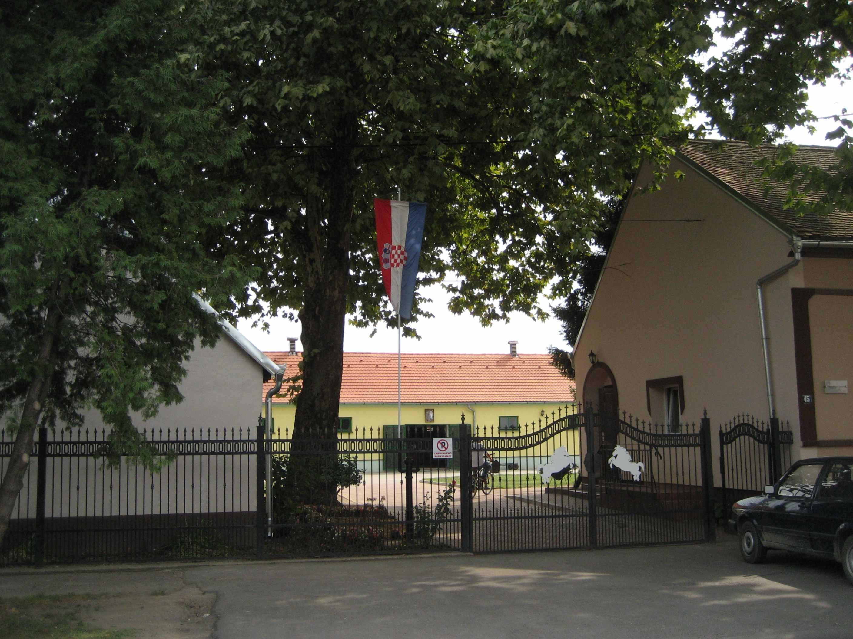 Ergela_Dakovo, Croatia